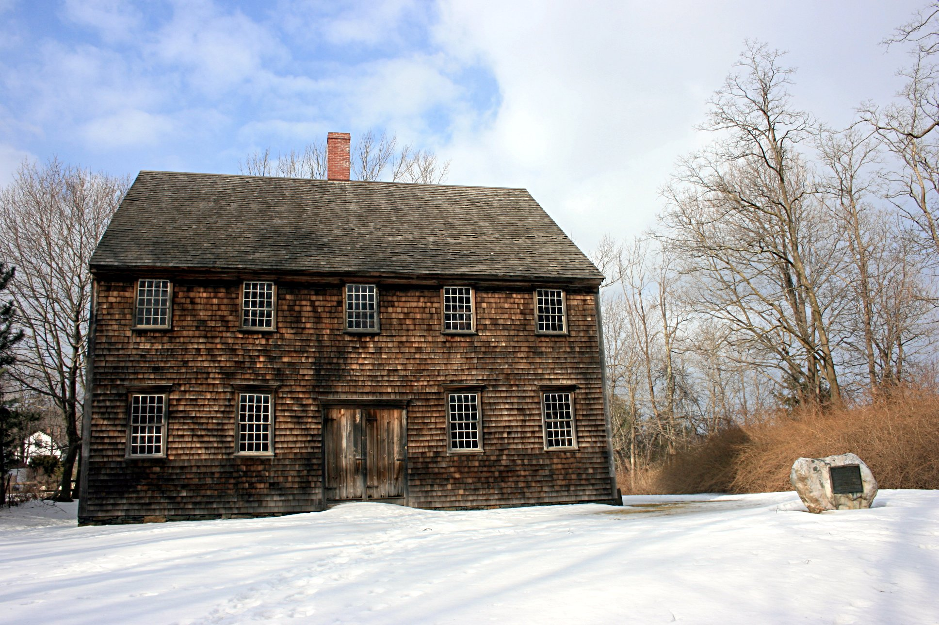 Photograph of the Oblong Friends Meeting House in in the hamlet of Quaker Hill, town of Pawling, Dutchess County, New York, USA by Rolf Müller